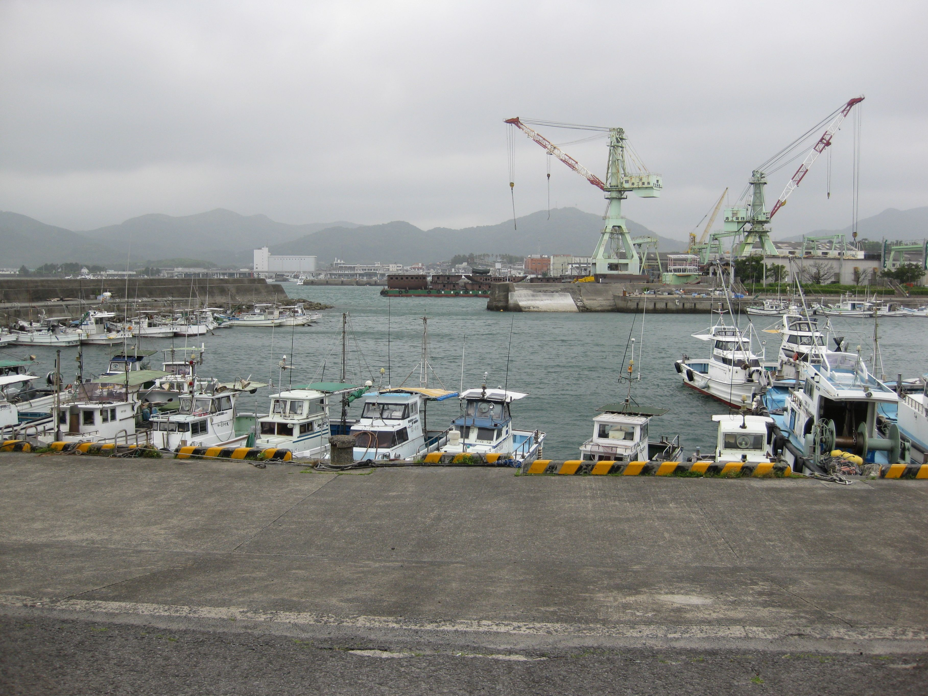 Kushikino Port in Kagoshima, Japan